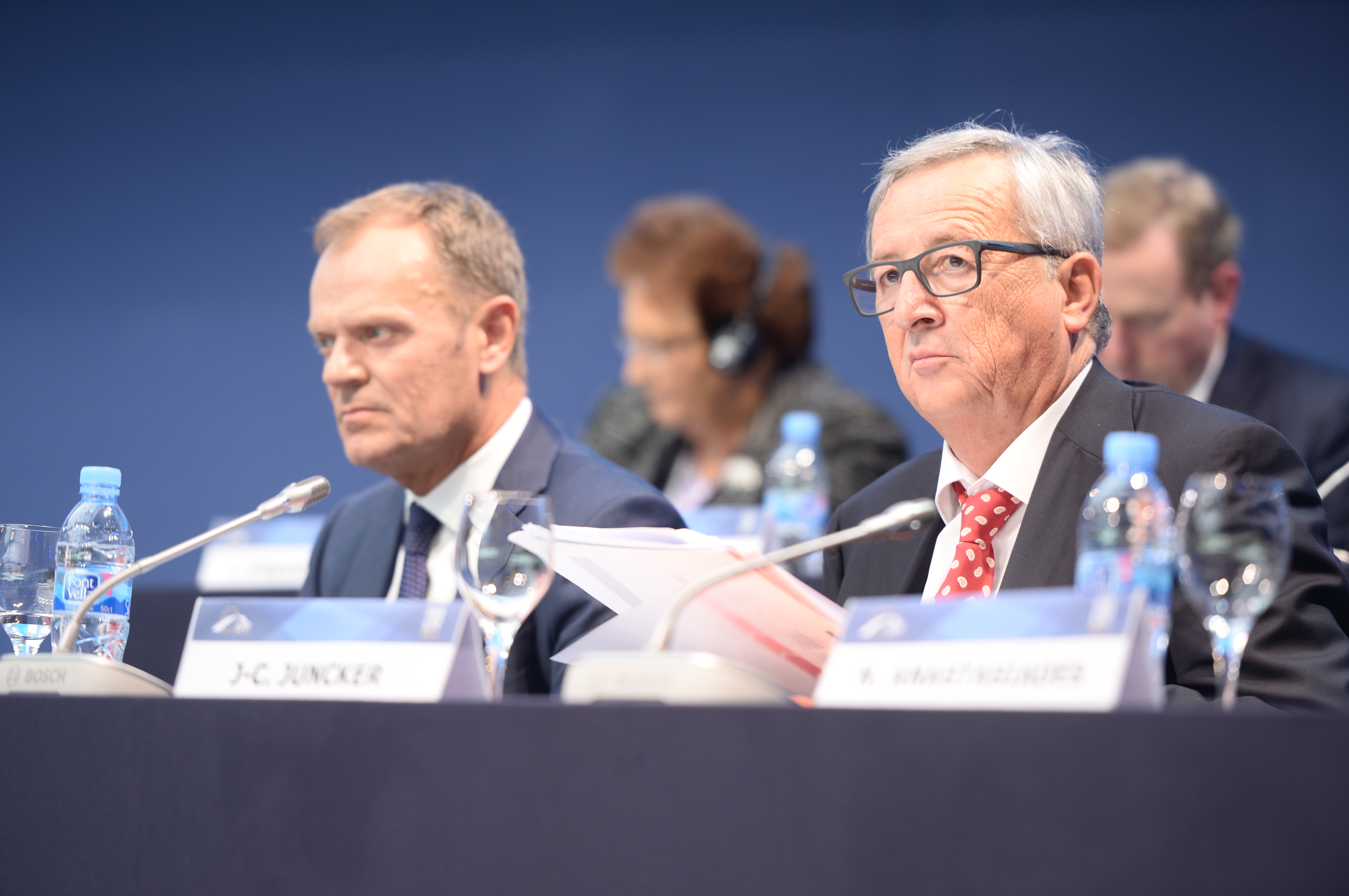 EPP Congress Madrid - 22 October